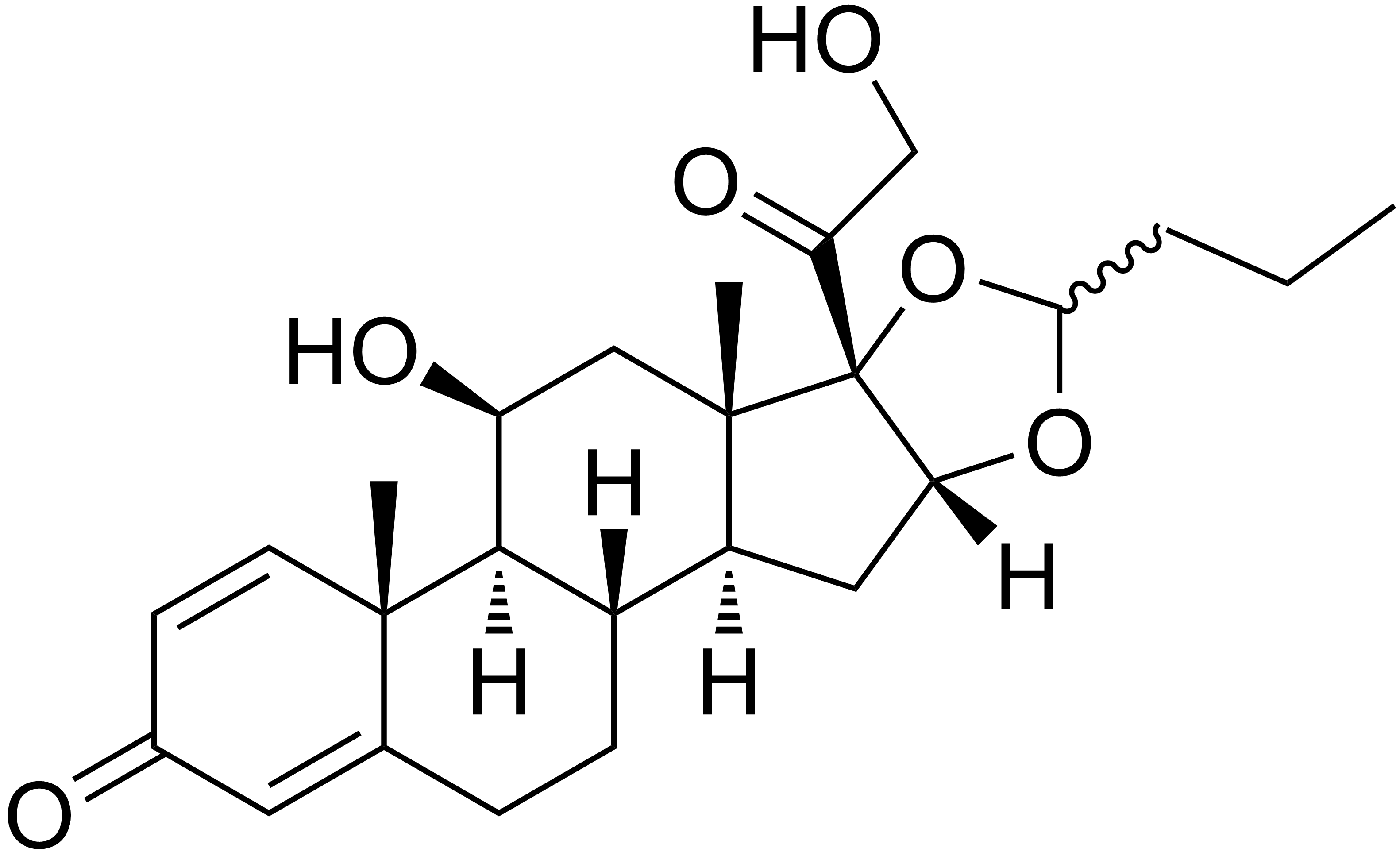 chemical structure of budesonide